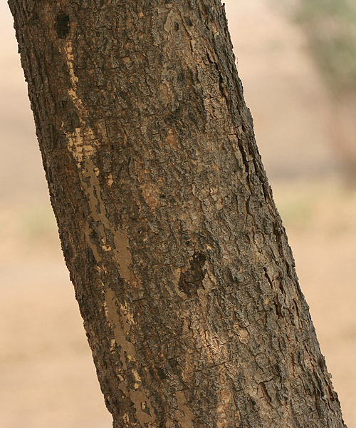 Siris Albizia lebbeck at Hodal in Faridabad District of Haryana, India.